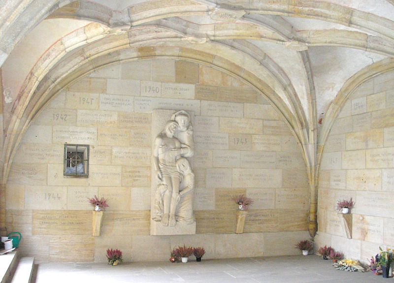 Ebern (Landkreis Haßberge, Lower Franconia, Germany). The war memorial (1958) at the former ossuary (Karner) next to the Parish church